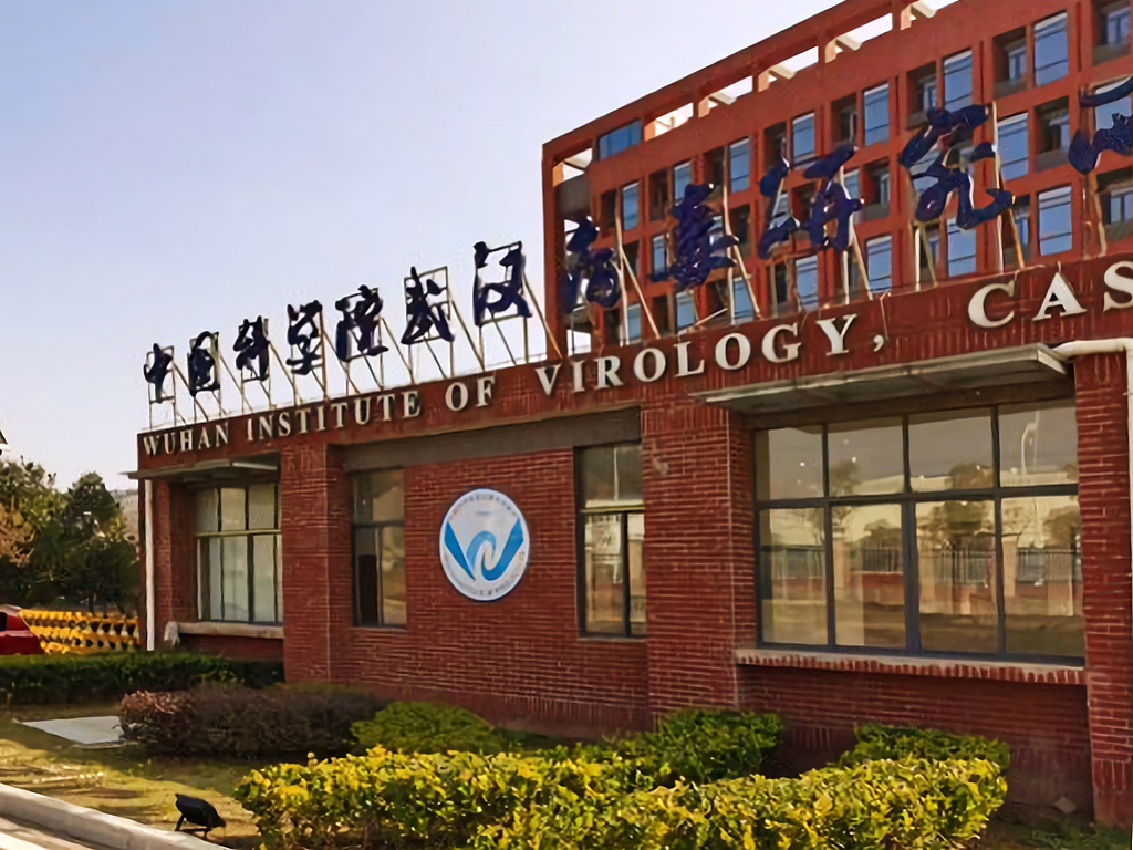 Wuhan Institute of Virology is a research institute by the Chinese Academy of Sciences in Jiangxia District, south of the Wuhan city, Hubei province, China.